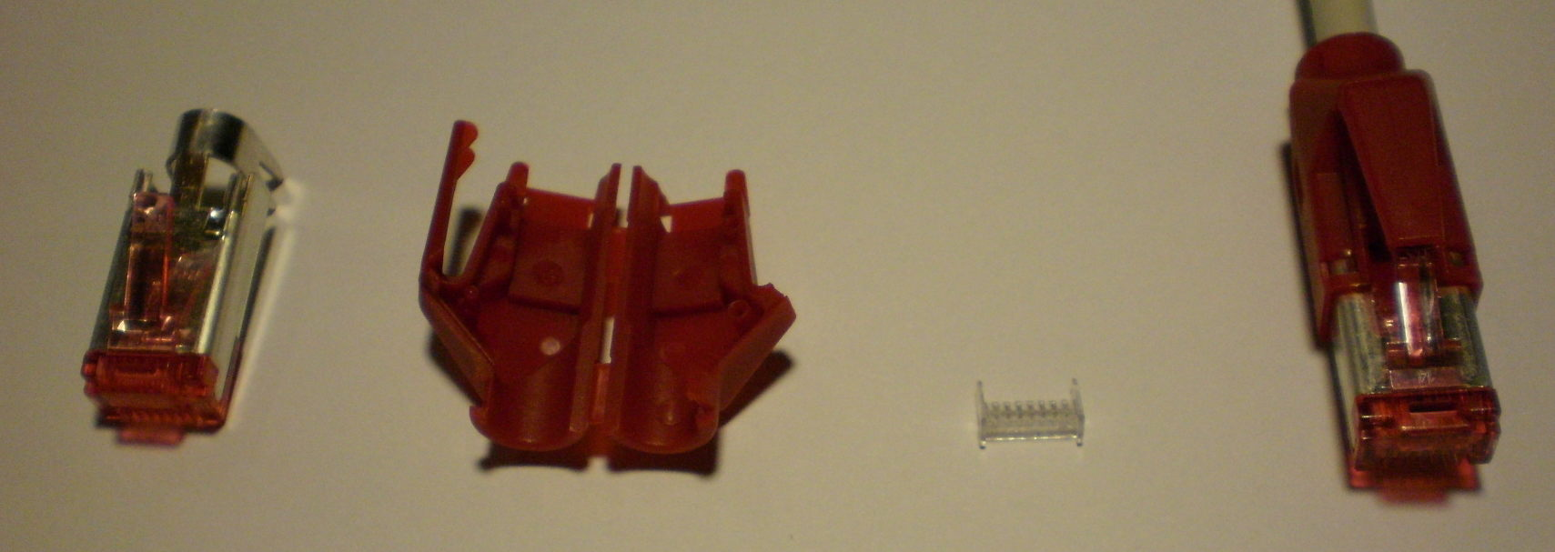 Hirose TM21 modular plug parts (connector, cover, guide plate) and crimped cable.jpg